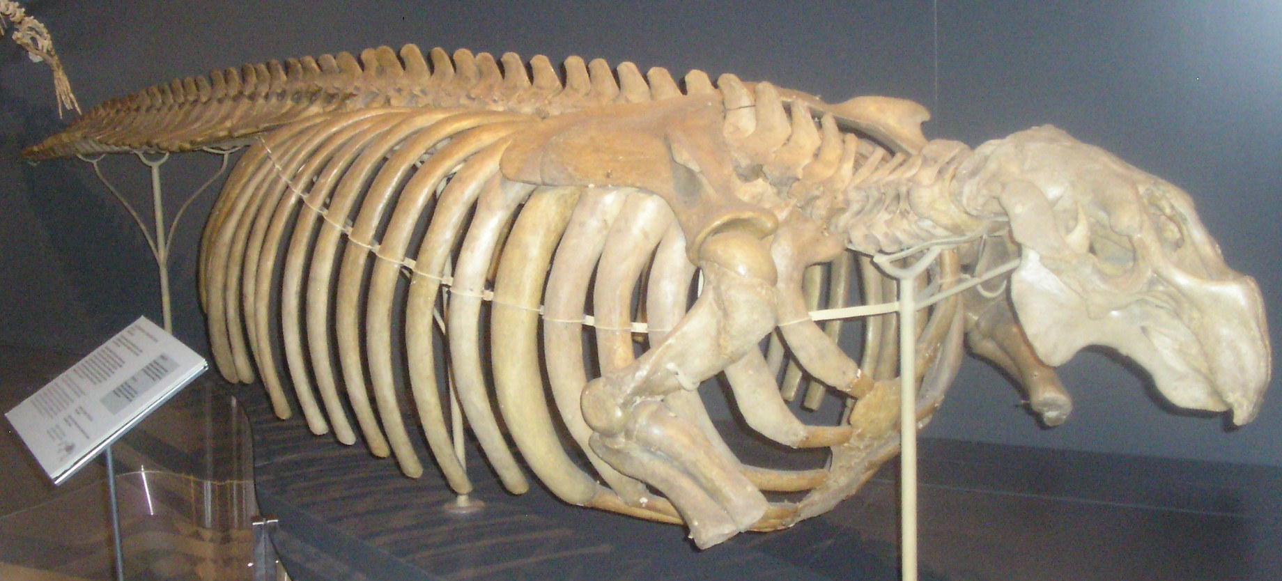 Skeleton of Hydrodamalis gigas in Natural History Museum of Helsinki